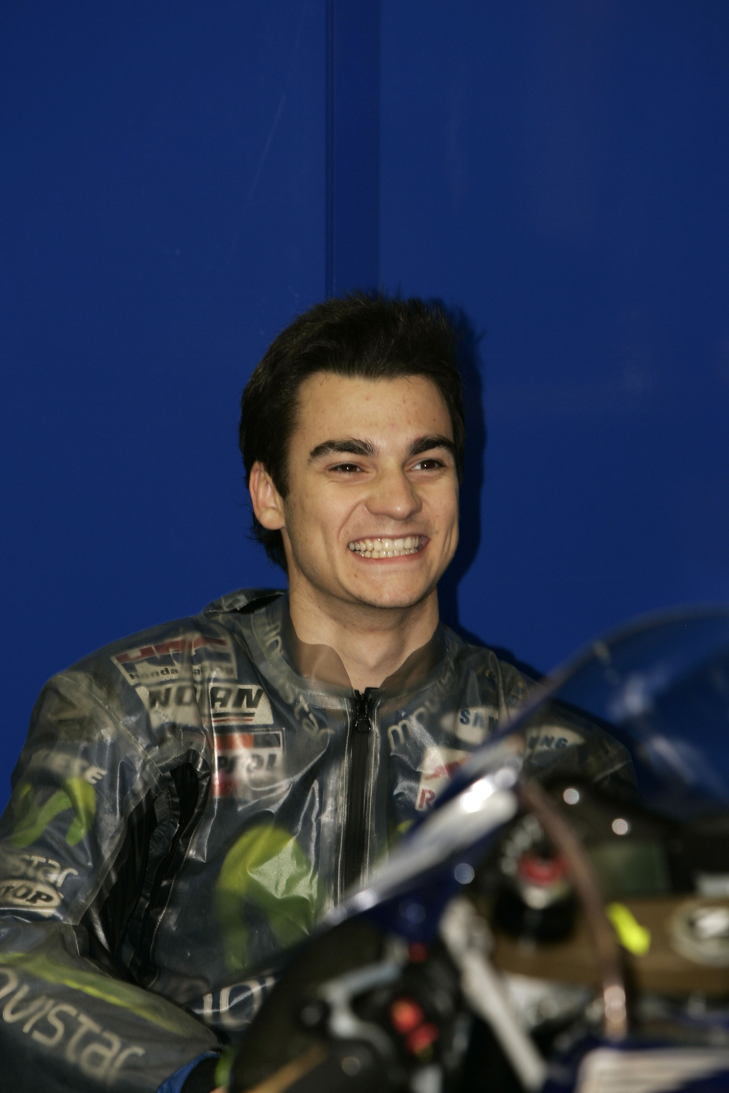 Dani Pedrosa, smiling for the press in his pit box at the 2005 French Grand Prix.